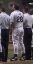 The Tampa Bay Devil Rays Major League Baseball club, right, and the Detroit Tigers salute the military as part of their Opening Day celebration on April 2, 2002.